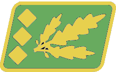 Collar tab, Colonel-general of Polizei, 1942-45